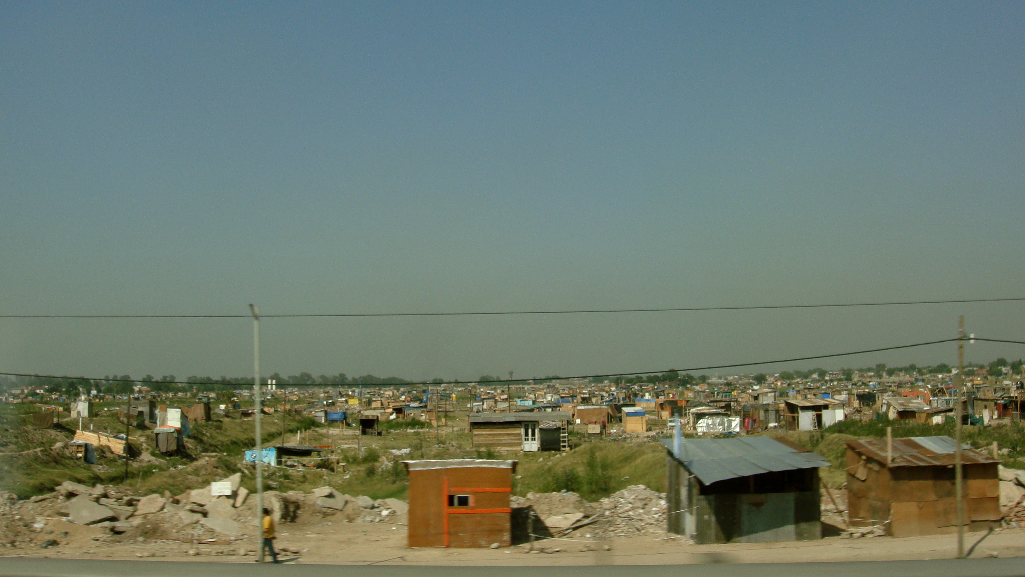 A villa miseria (slum), in Ingeniero Budge, Buenos Aires Province.